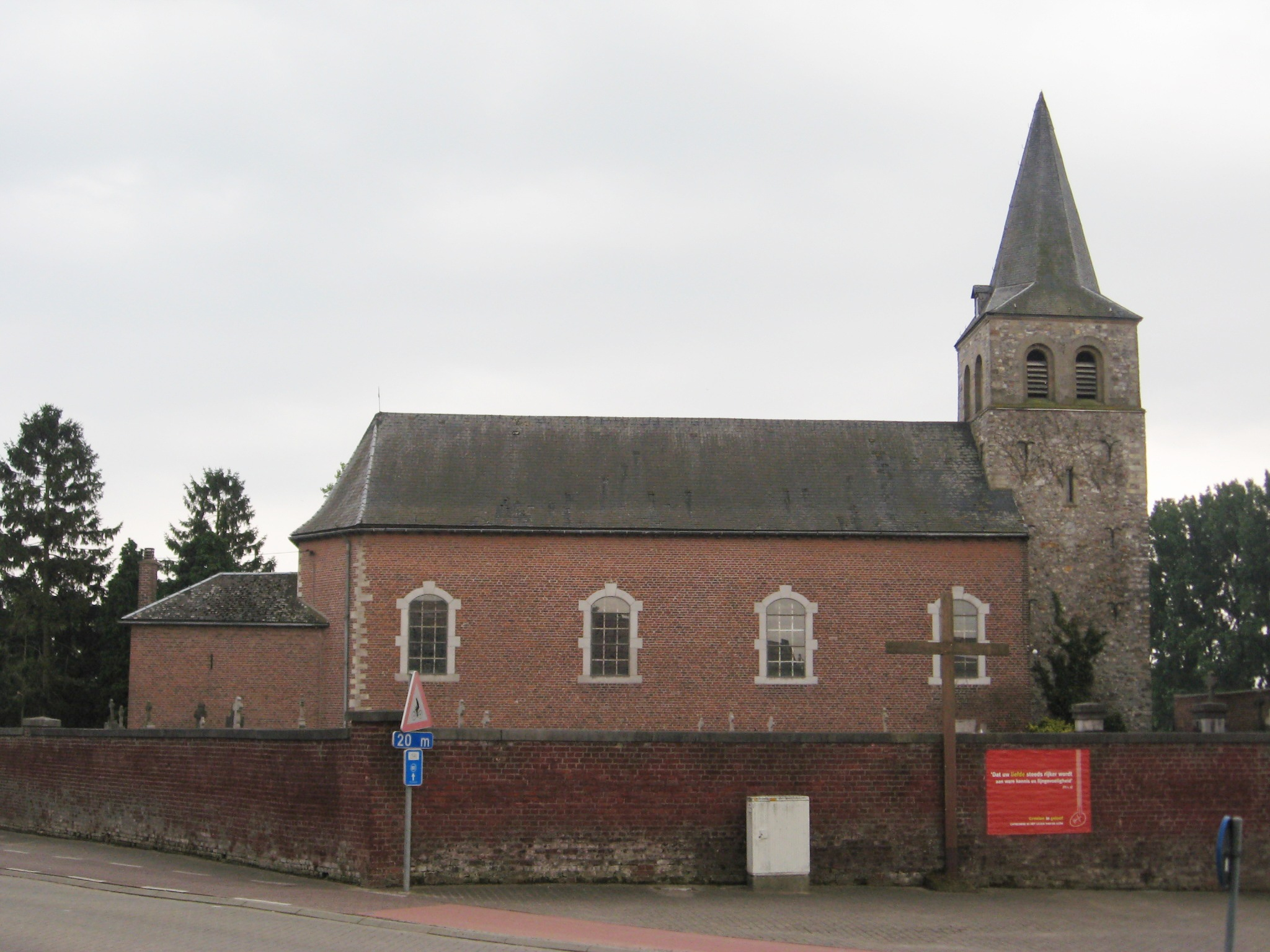 Church of the Three Moors in Gutschoven, Heers, Limburg, Belgium